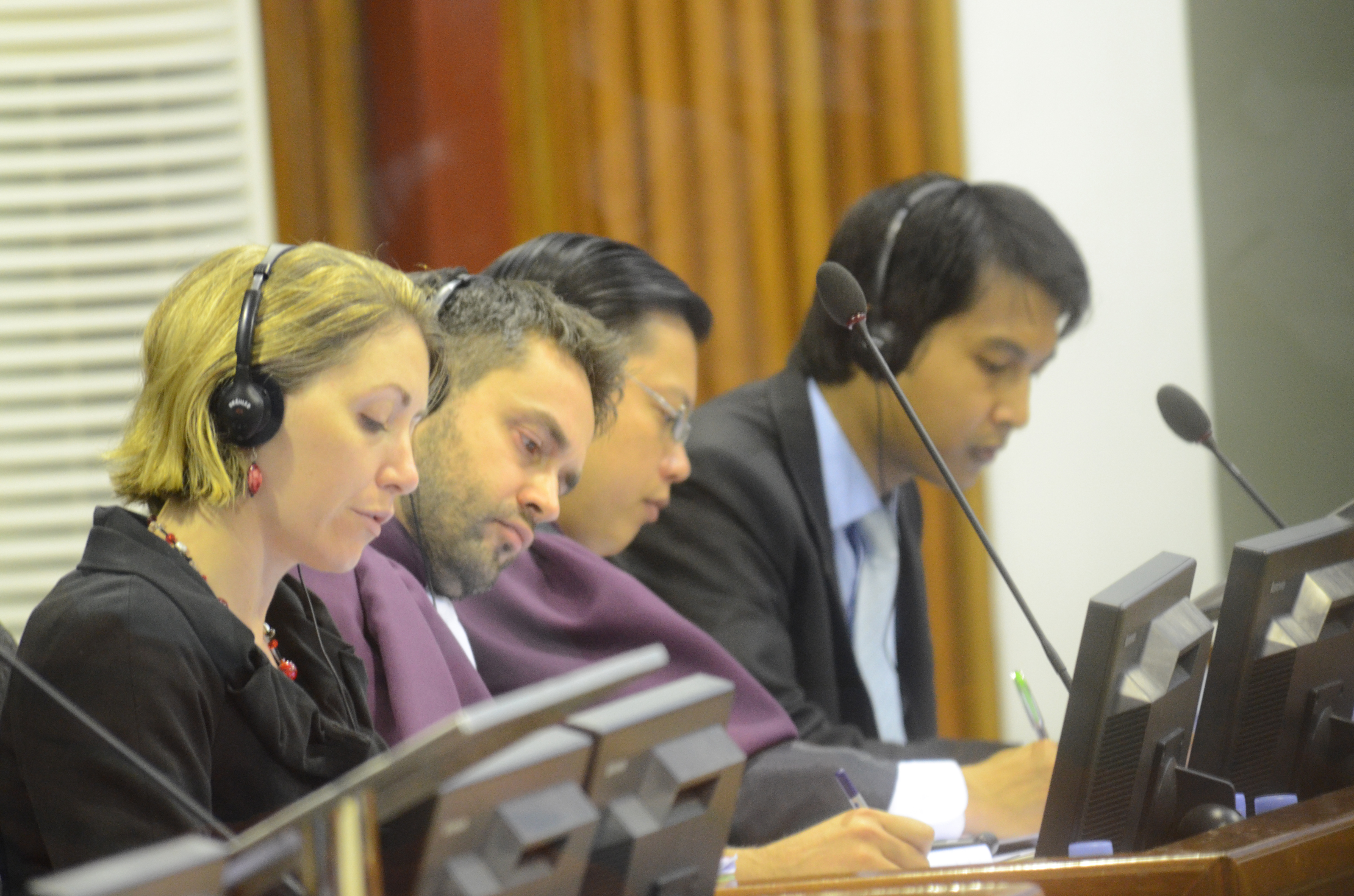 31 Aug 2011:The Co-Prosecutors during the third day of Trial Chamber's preliminary hearing on fitness to stand trial. ... ថ្ងៃទី៣១ ខែសីហា ឆ្នាំ២០១១: សហព្រះរាជអាជ្ញានៅក្នុងថ្ងៃទីបីនៃសវនាការលើកាលសម្បទា នៅចំពោះមុខអង្គជំនុំជម្រះសាលាដំបូង។